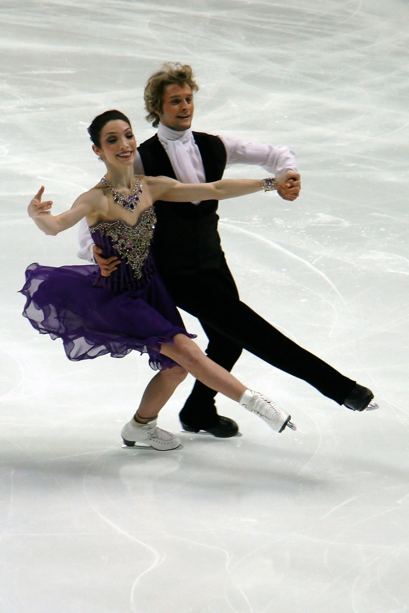 Meryl Davis and Charlie White at the 2011 World Figure Skating Championships